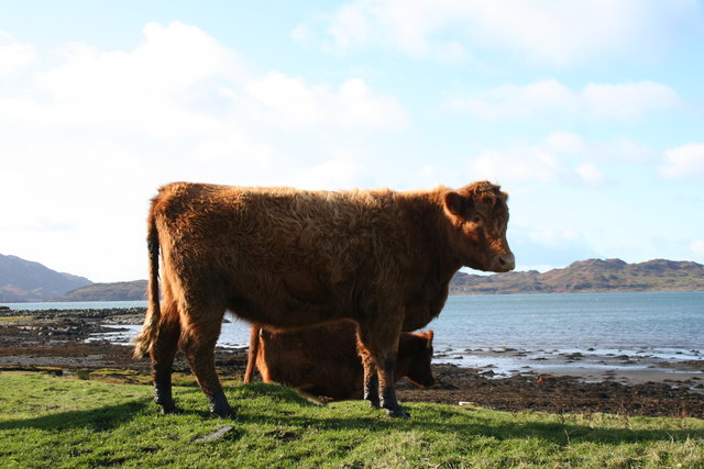 Beach Grazing – Distinctive Luing cattle grazing on the beach at Black Mill Bay